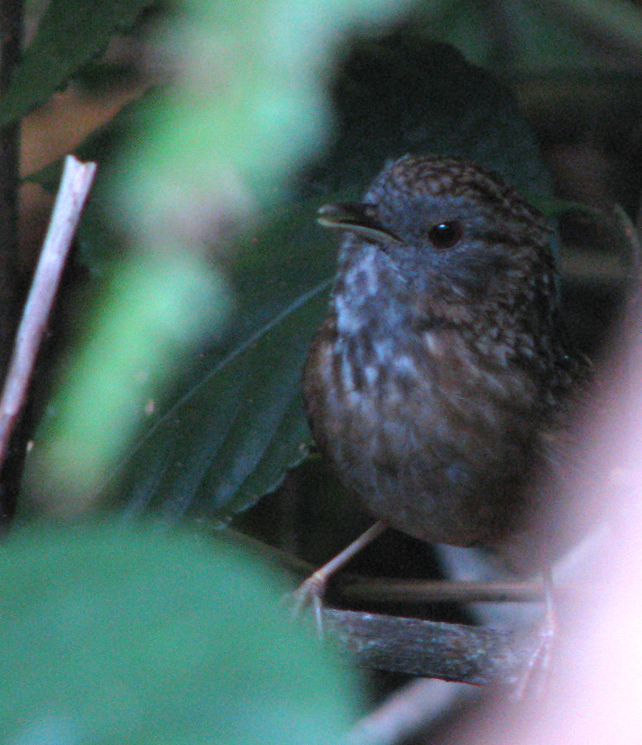 Streaked Wren Babbler